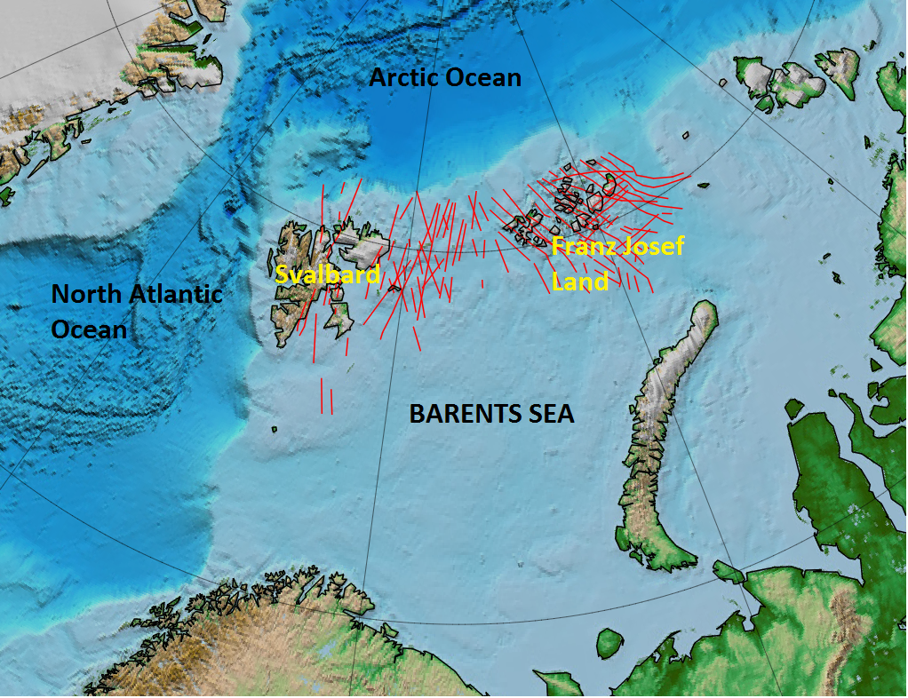 Barents Sea dike swarm inferred based on high-resolution aeromagnetic data